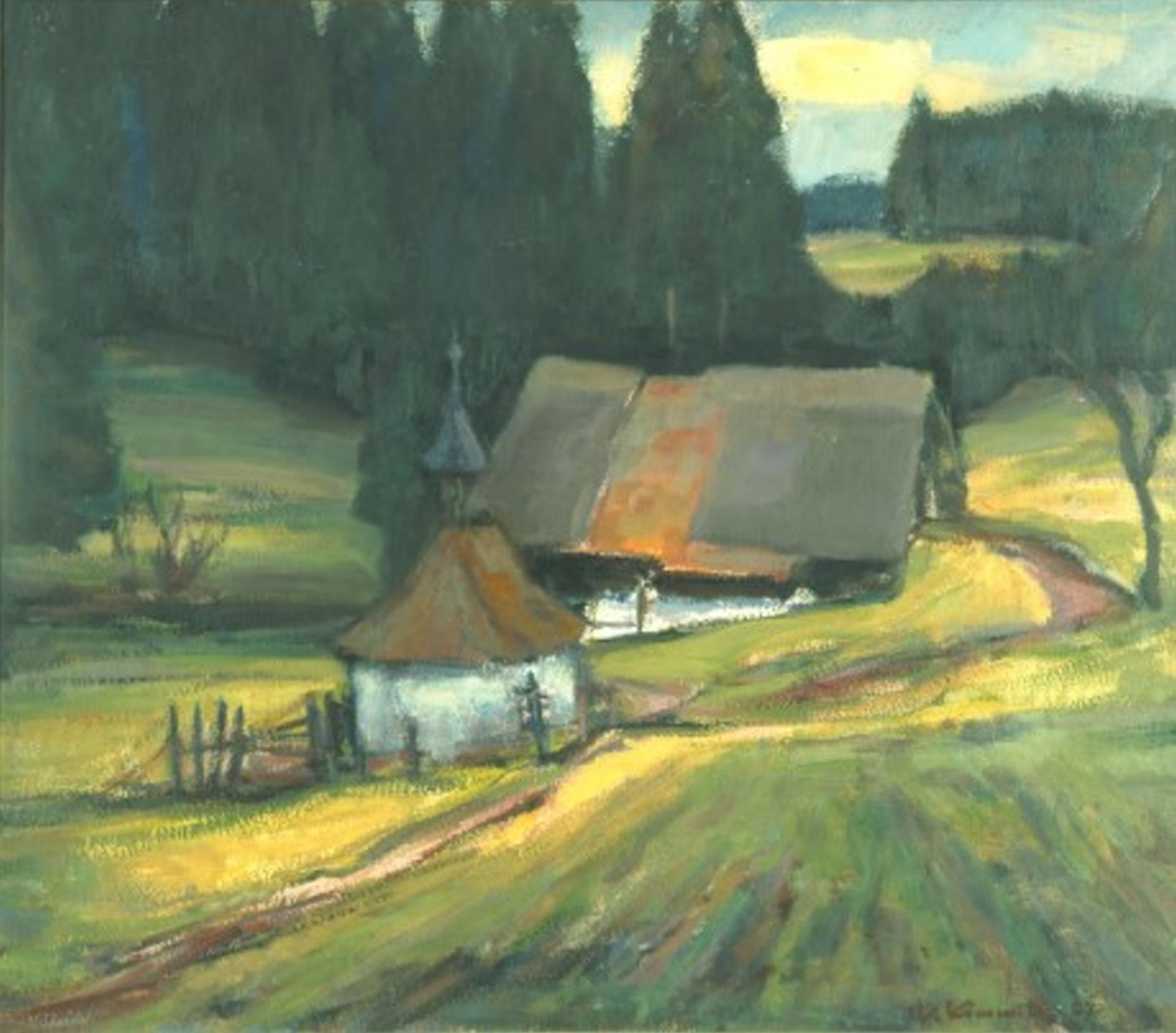 Wilhelm Kimmich painting:Kaeppelehof in the summer